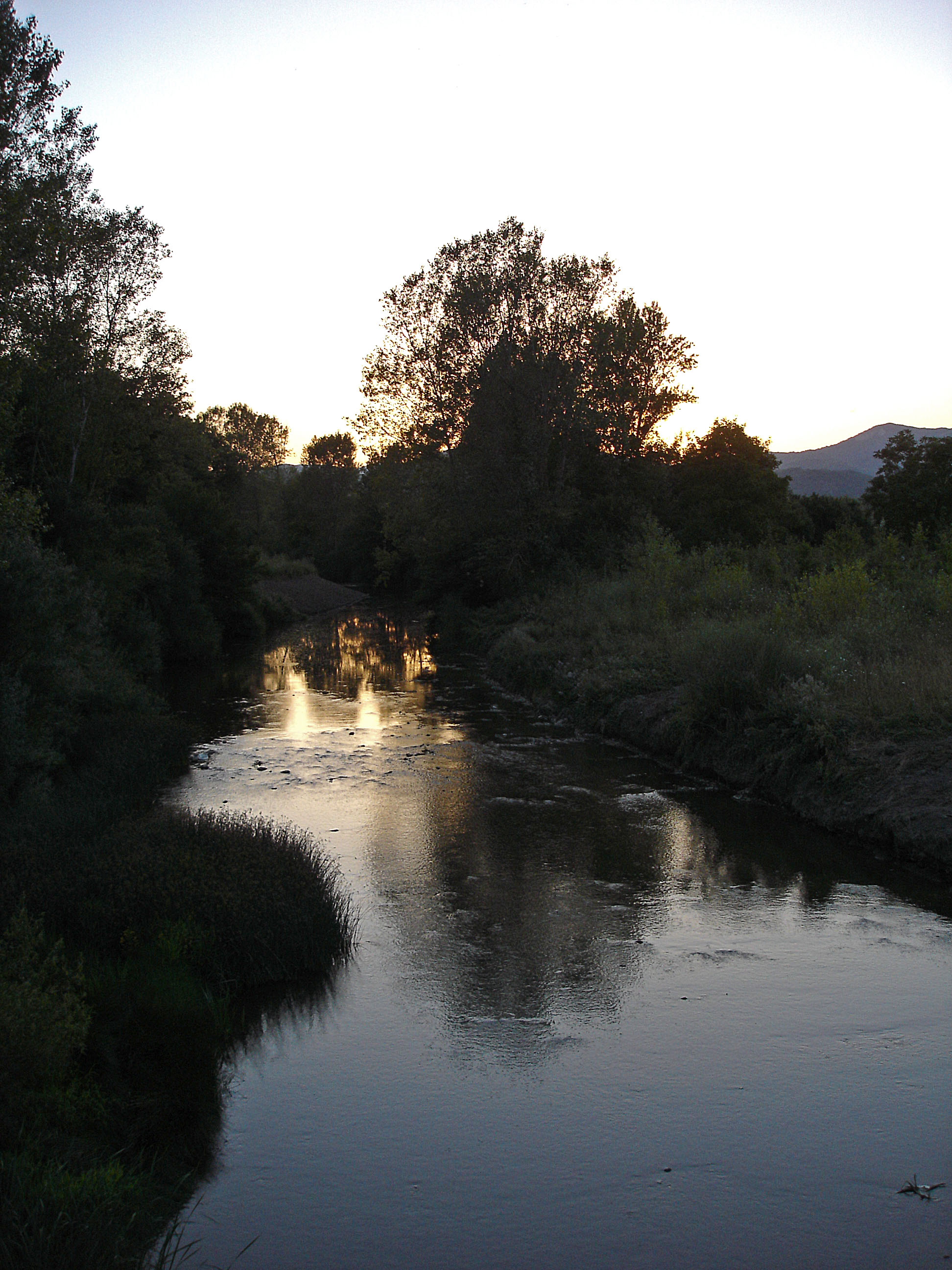 It was #310 in Explore 24/08/2007 Capvespre en el riu Arakil a Etxarri Aranaz. Sakana- Nafarroa. Atardecer en el rio Arakil en Etxarri Aranaz . Sakana - Nafarroa. Evening in the river Arakil in Etxarri Aranaz. Sakana- Nafarroa.